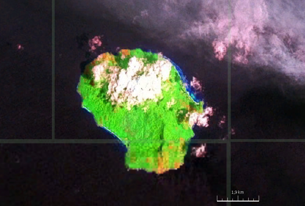 Silhouette Island, Seychelles: NASA World Wind, Geocover 2000 (image needs to be replaced, since it was found unfinished, due to NASA server problems)